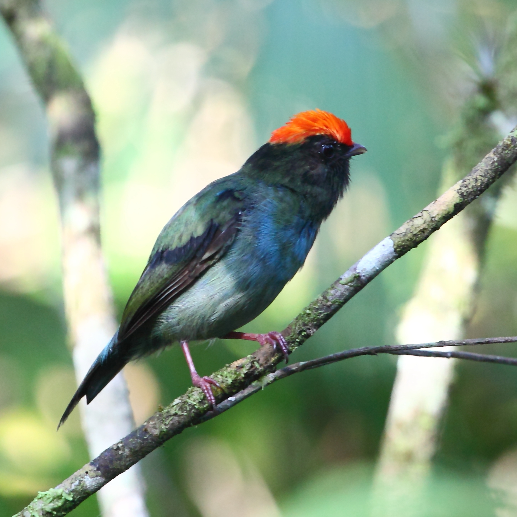 Blue Manakin (Young) at Bertioga - SP - Brazil